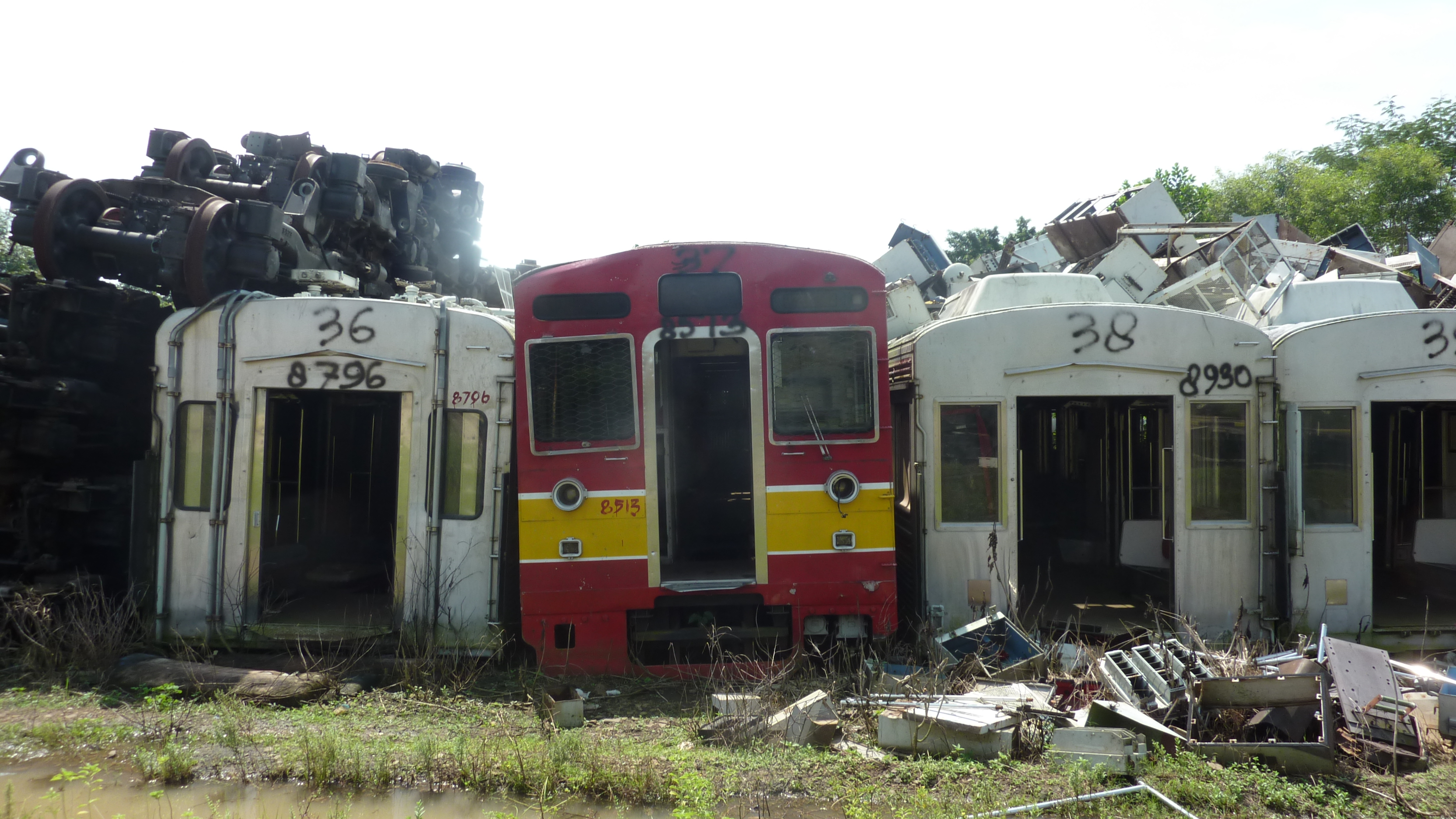 Derelict former Tokyu Den-en-toshi Line 8500 series car 8796, 8513, and 8930 of set 8613, known as Jalita in Indonesia, awaits for scrapping in Cikaum Station in Subang Regency, West Java, Indonesia, July 2016